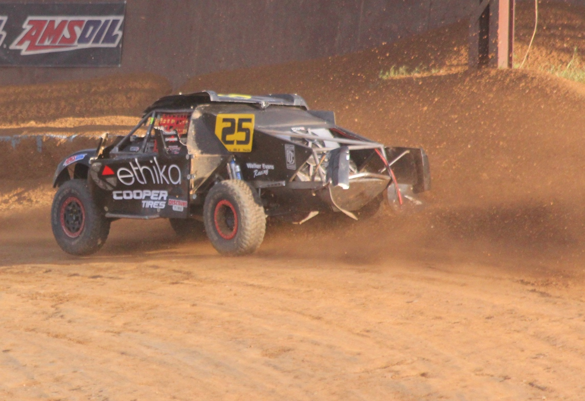 The Pro light TORC truck of Arie Luyendyk, Jr at Crandon International Off-Road Raceway.